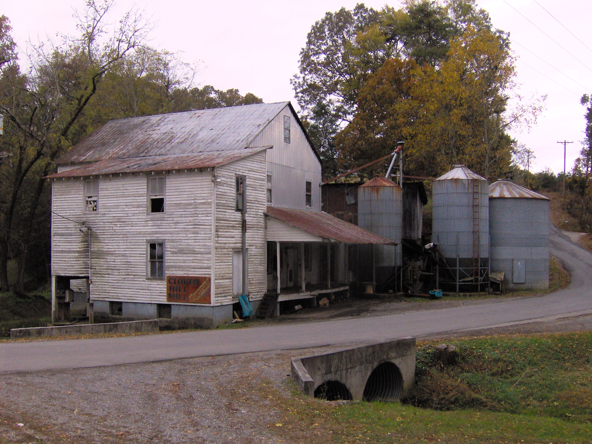 The Clover Hill Mill in Maryville, Tennessee, USA. This mill was built in 1921 to replace a 19th-century mill that burned. The mill was once water-powered, but is now powered by electricity.